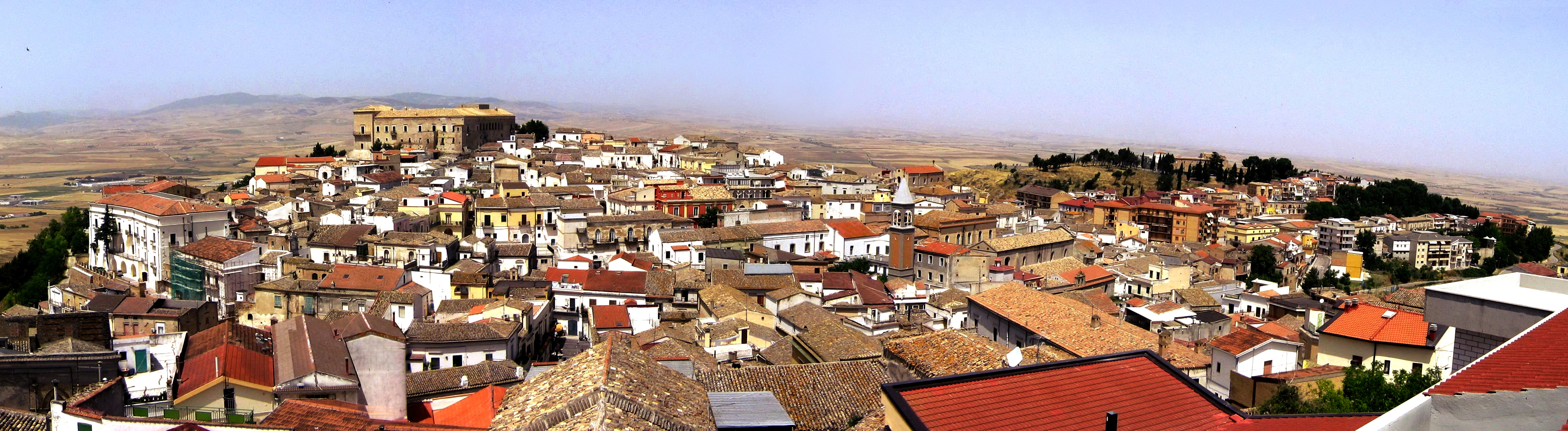 Ascoli Satriano. Panoramic view.